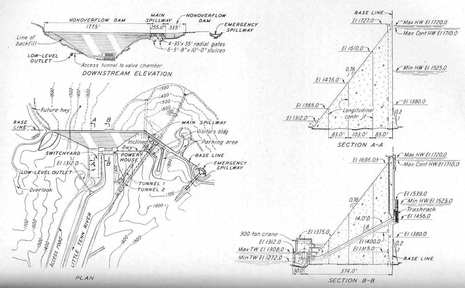 TVA's design plan for Fontana Dam, on the Little Tennessee River in Swain County, North Carolina. Note: Shading at the bottom of the image is due to a page break, and not part of the original diagram.